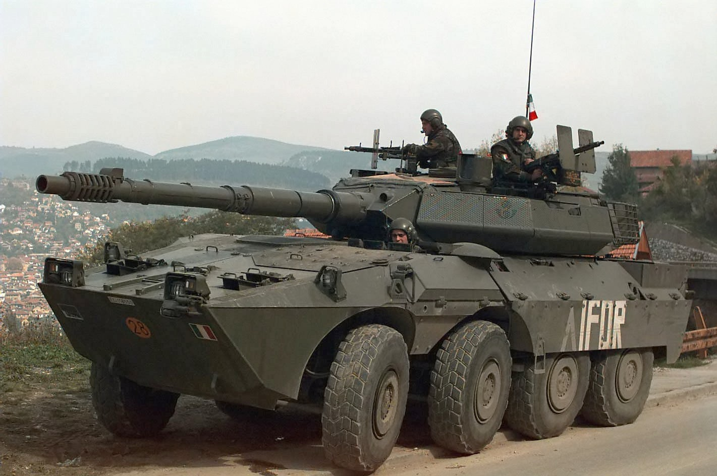 An IFOR marked Italian Army 19th Cavalry Regiment Consortium IVECO - OTO Melara Centauro B1 (8x8) Tank Destroyer is parked on the shoulder of a road while on patrol in Sarajevo, Bosnia-Herzegovina. Three crewmembers are seen standing up through the two turret hatches and the driver's hatch. The Italian Army is in Bosnia during Operation Joint Endeavor, which is a peacekeeping effort by a multinational Implementation Force (IFOR), comprised of NATO and non-NATO military forces, deployed to Bosnia in support of the Dayton Agreement.